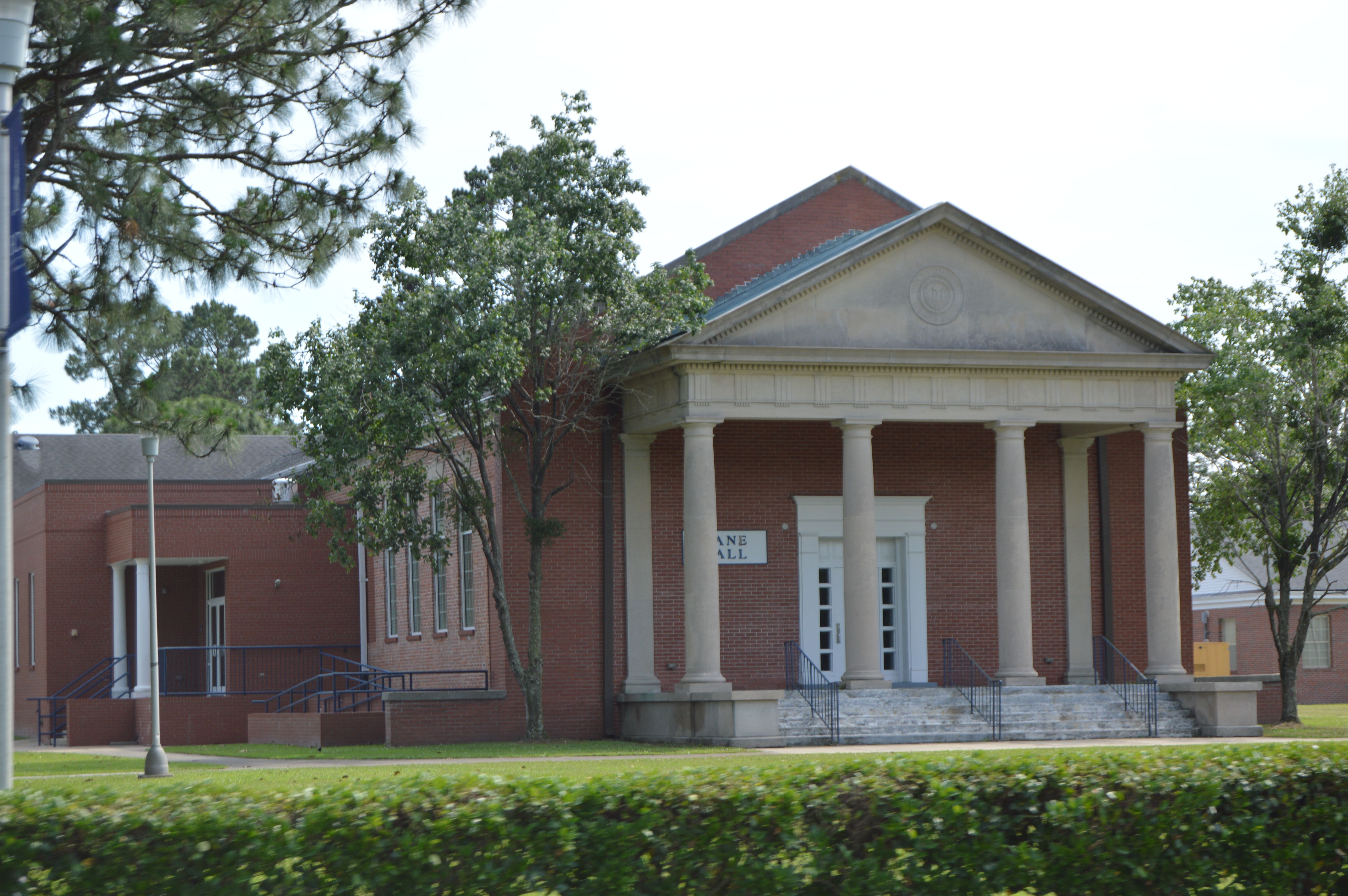 Front of Lane Hall (built 1909) on the campus of Elizabeth City State University in Elizabeth City, North Carolina, United States. Although the oldest building on campus, Lane Hall is not part of the campus historic district, due to recent modifications.